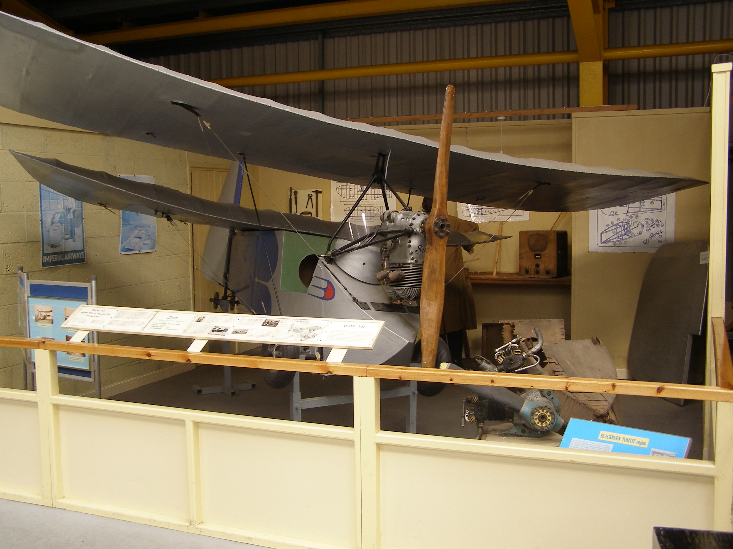 Mignet Pou du Ciel "Flying Flea" at Newark Air Museum, England